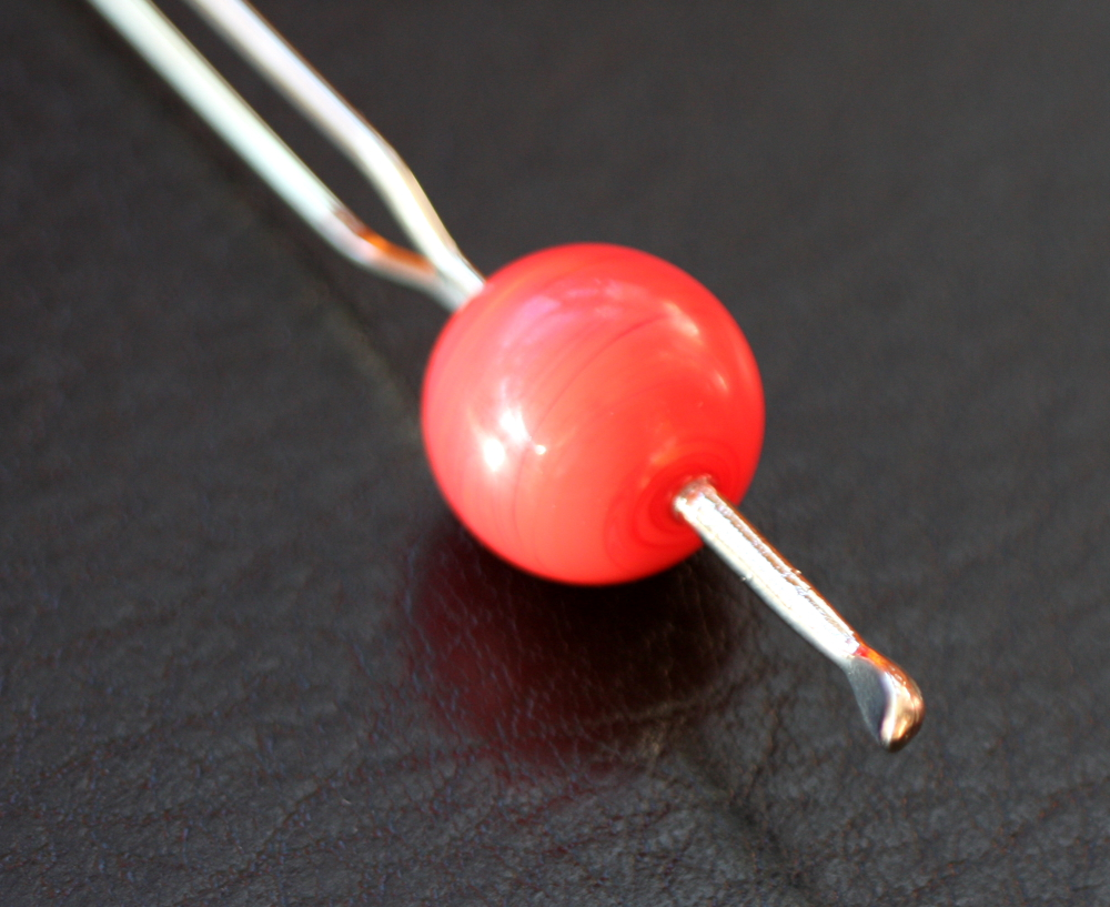 Coral tama-kanzashi.